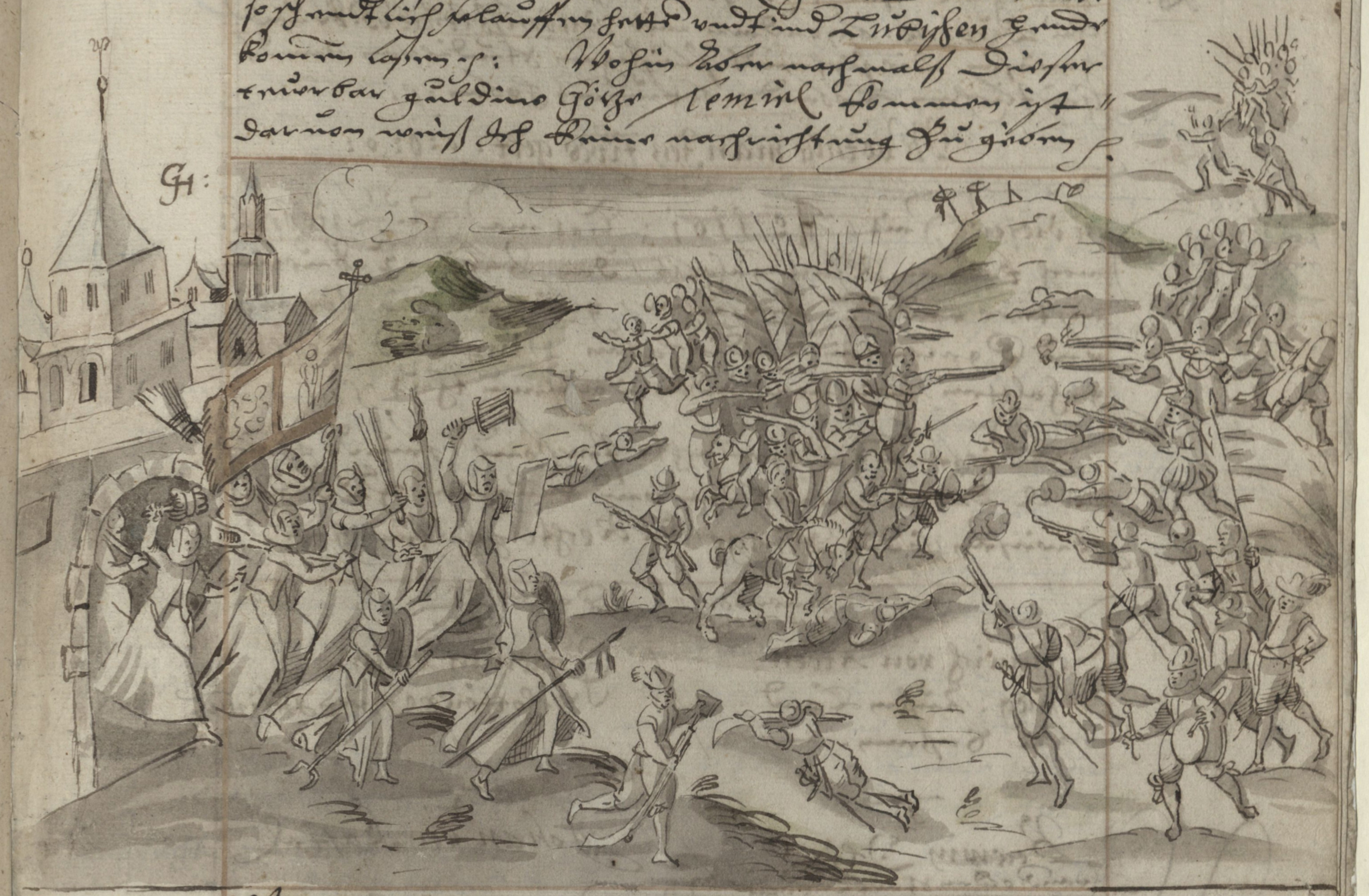 Illustration from Heinrich Rehbein's manuscript "Lübecker Chronik": Battle for Lübeck (so-called Battle of the Neilad), 1147